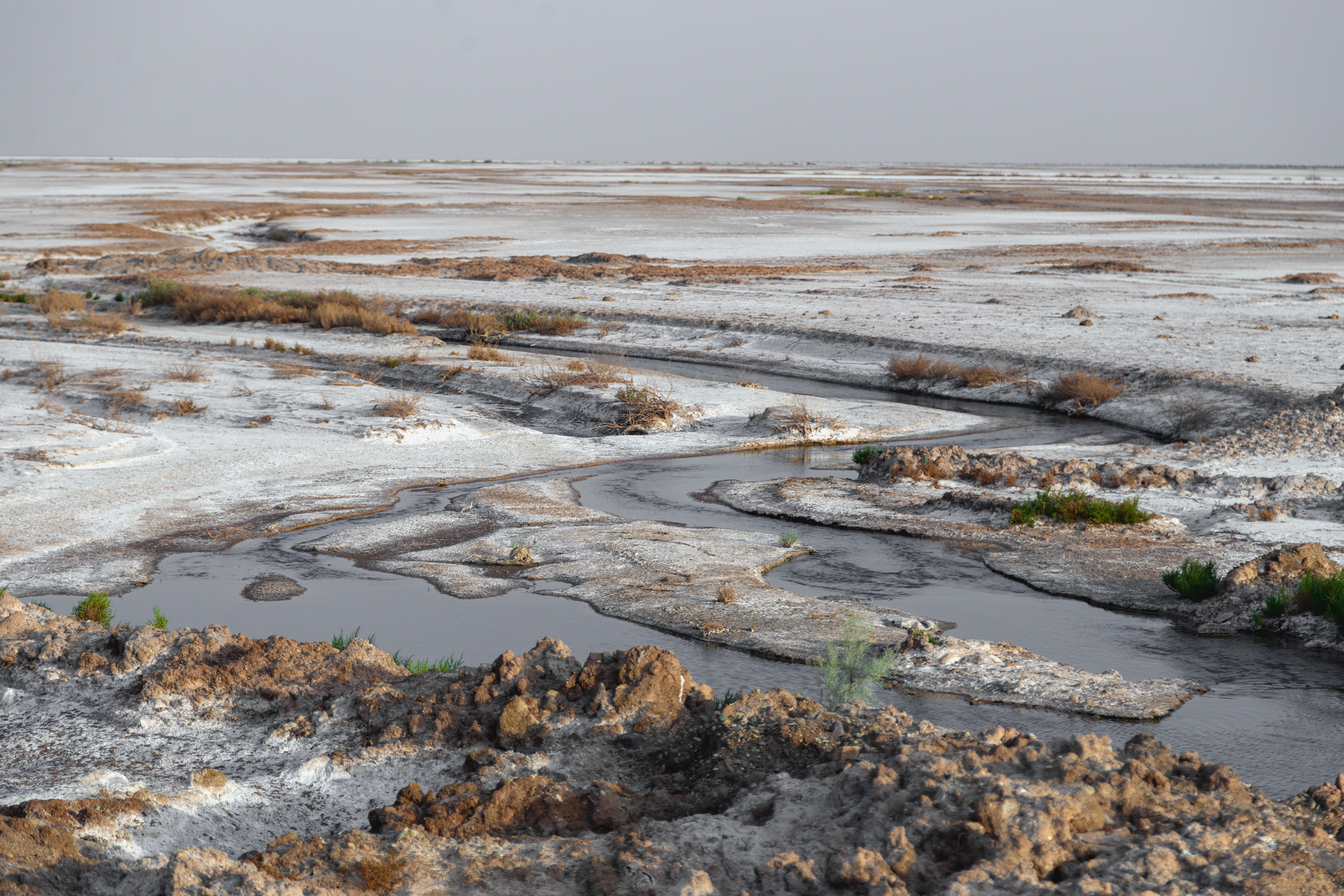 Qom Province, is one of the 31 provinces of Iran with 11,237 km², covering 0.89% of the total area in Iran.